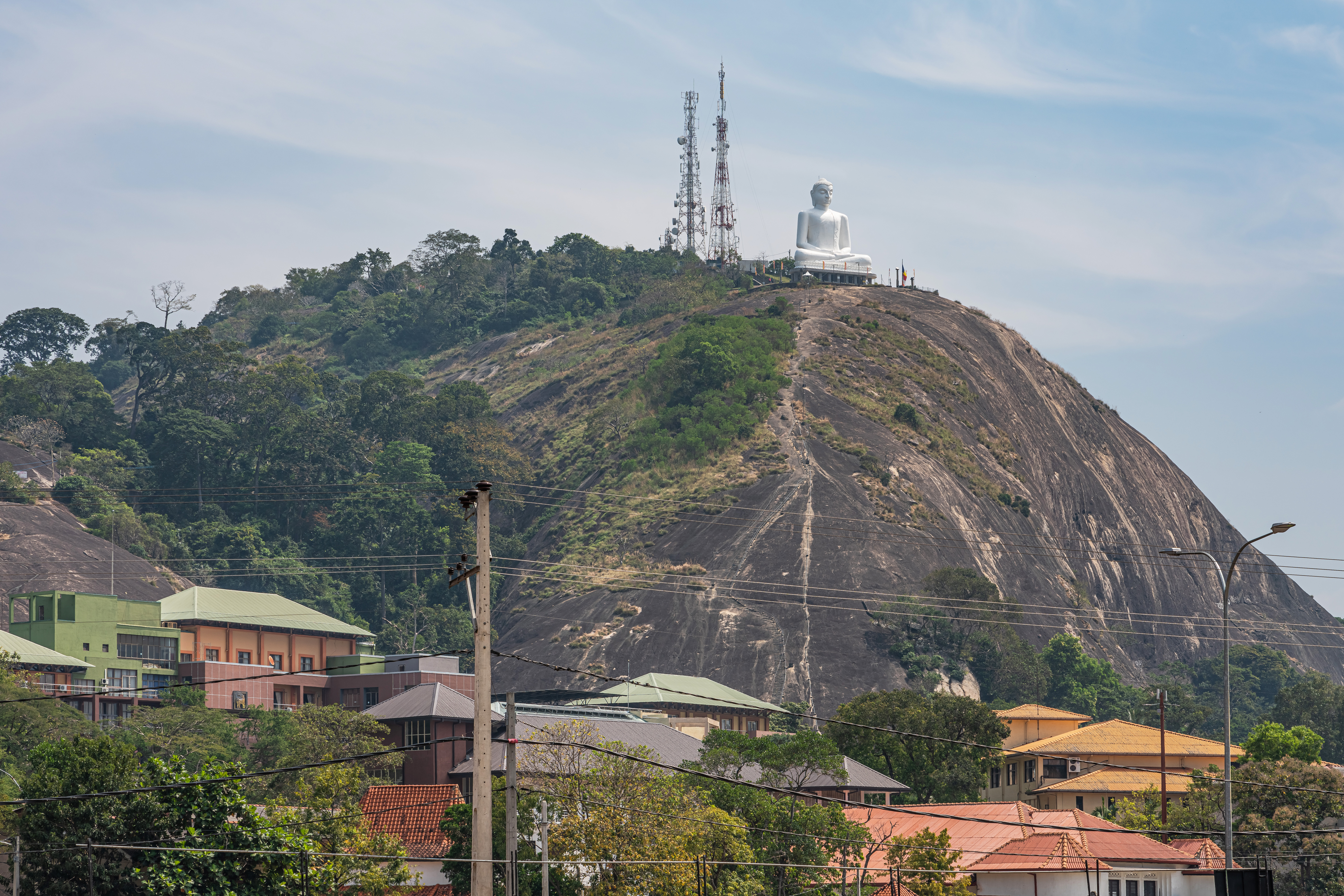 Elephant Rock with Sitting Buddha statue in Kurunegala, Sri Lanka